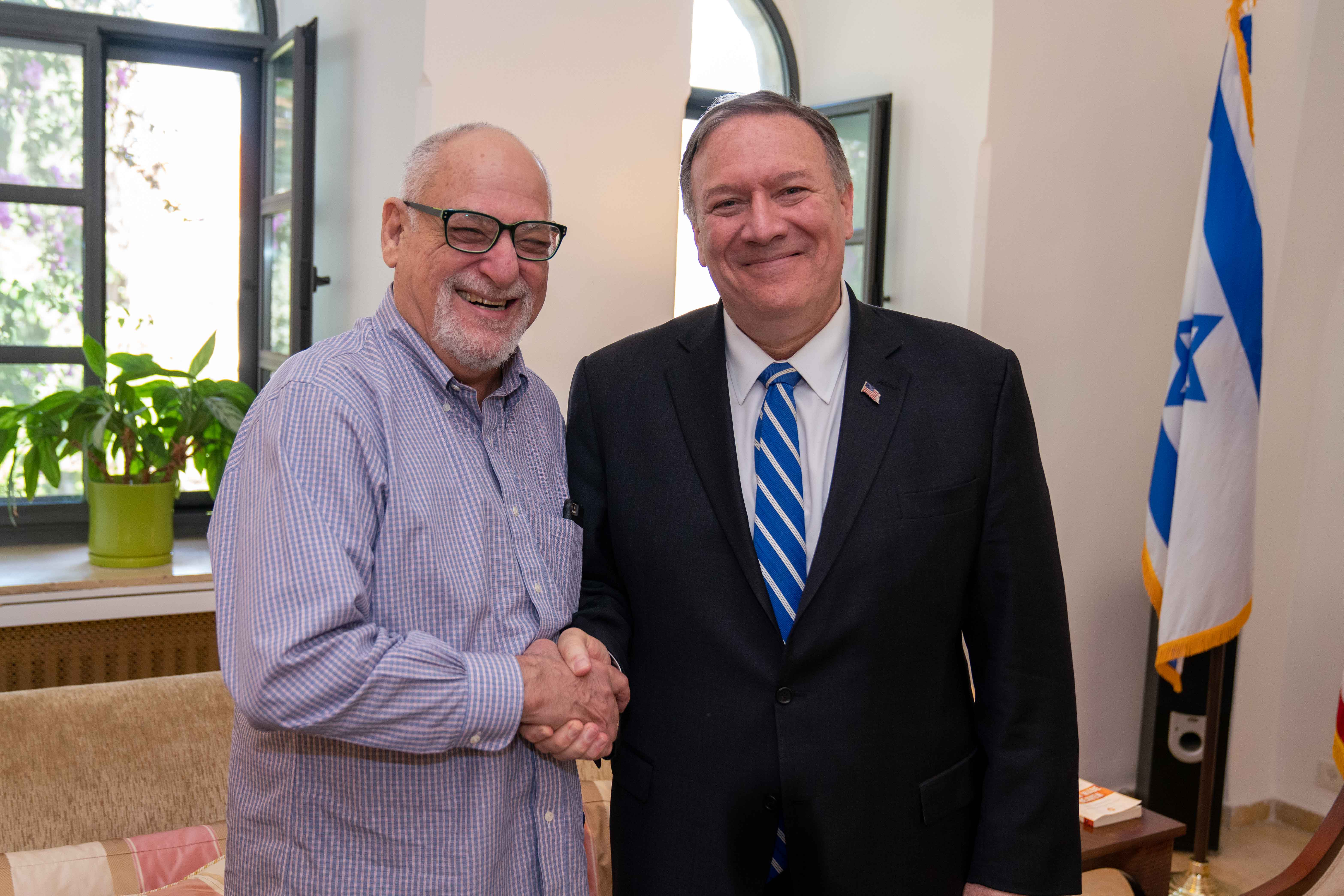 U.S. Secretary of State Michael R. Pompeo participates in an interview with Zev Chafets from Bloomberg Opinion in Jerusalem on October 18, 2019. [State Department Photo by Ron Przysucha/ Public Domain]